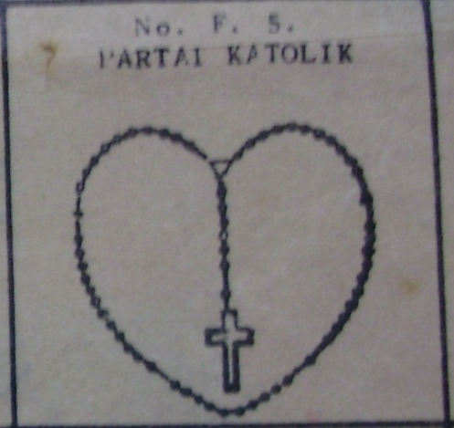 election symbol on 1955 ballot paper